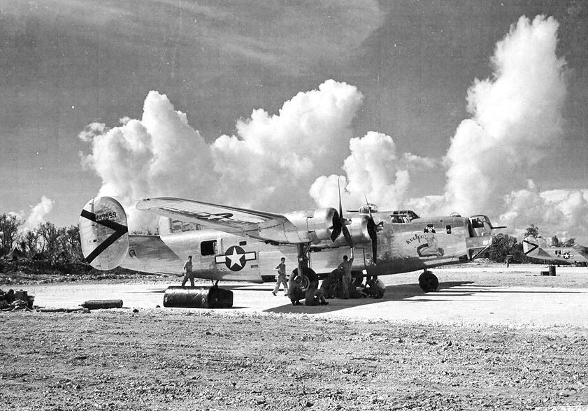 "Kuuipo" B-24J-170-CO Liberator Serial number 44-40559 864th Bomb Squadron, 494th Bomb Group, 7th Air Force. Kuuipo means 'sweetheart' in Hawaiian. She was a veteran of 45 combat missions when she was badly shot up by Japanese fighters on the July 25,1945 mission to bomb Tsuiki,Kyushu. Only two of the eleven crew members survived.